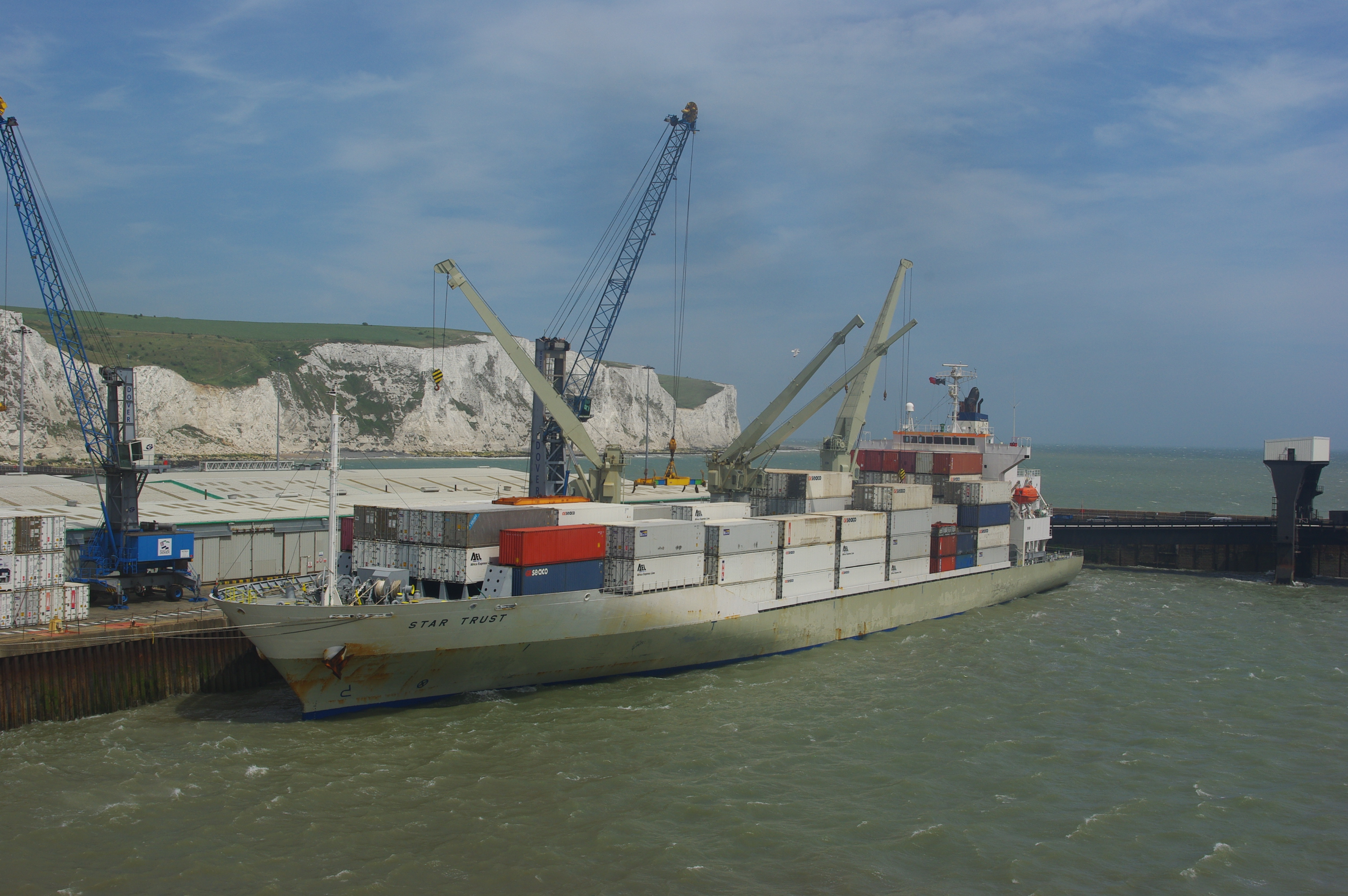 Ship Star Trust at Port of Dover, 2011-05-23 Call Sign: 9V9353 IMO: 9438511, MMSI: 566049000